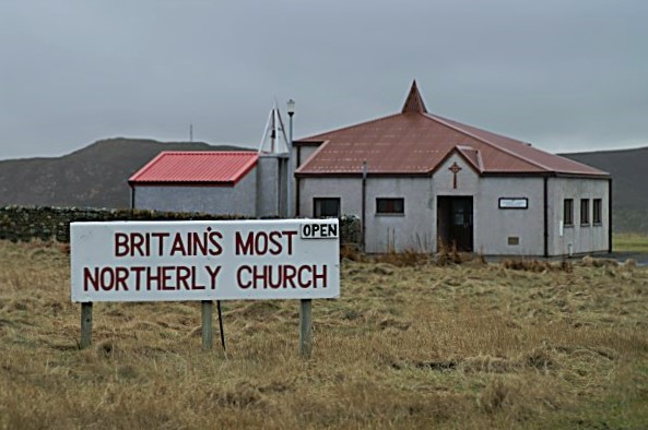 Haroldswick Methodist Church Britain's most northerly church - it does exactly what it says on the sign!